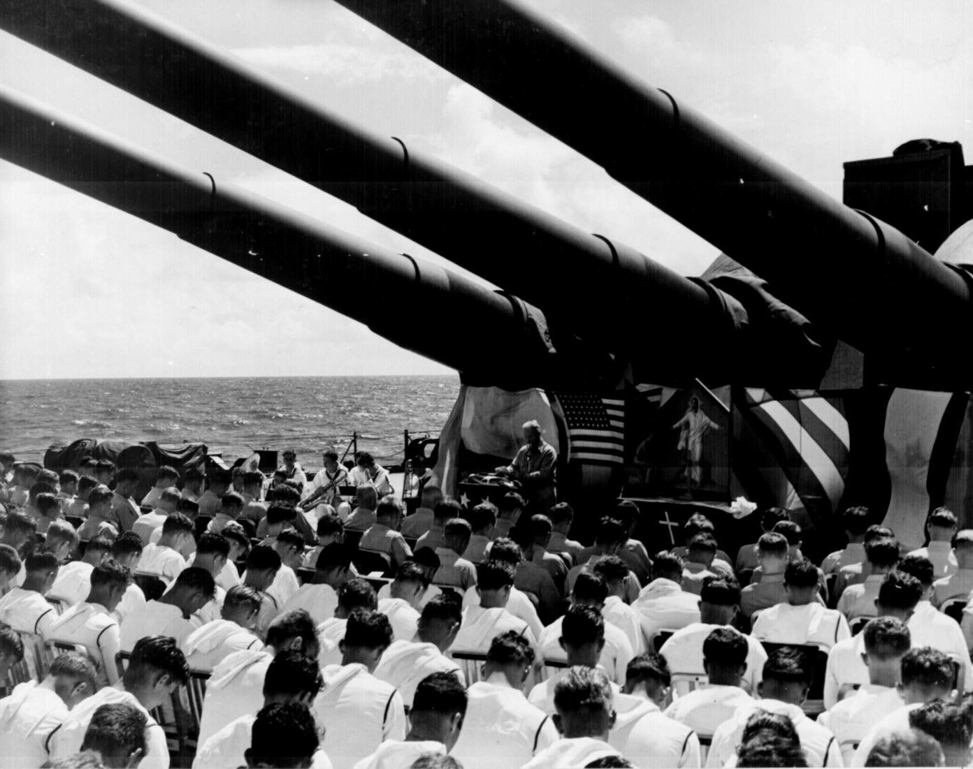 original source: National Archives, 80-G-238322. copied from Larger version discovered at archives.govspecifically Description: Taken July 1, 1944...The crew of the USS SOUTH DAKOTA stands with bowed heads, while Chaplain N. D. Lindner reads the benediction held in honor of fellow shipmates killed in the air action off Guam on June 19, 1944.